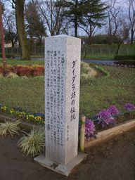 Legend of Daidarabou (Mito, Japan)